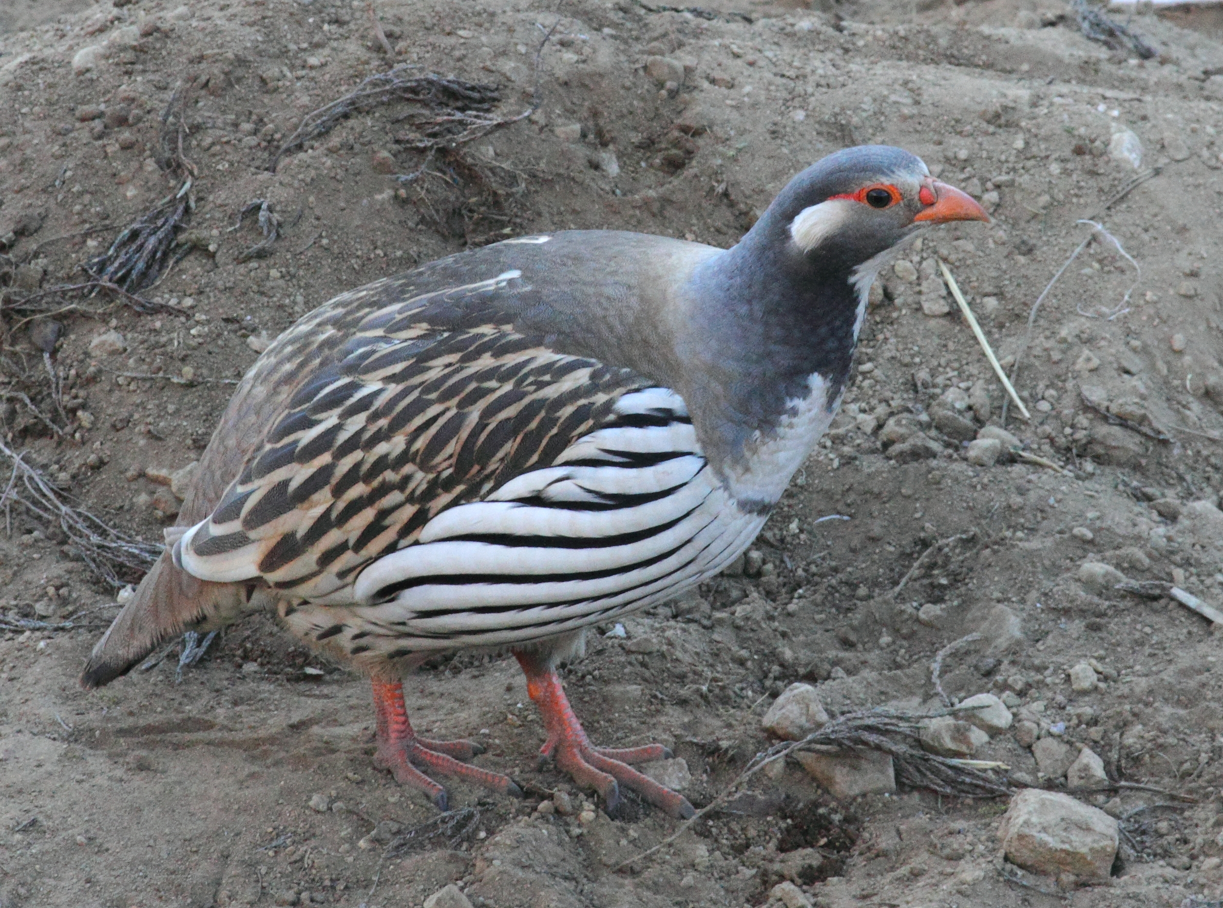 Tibetan Snowcock